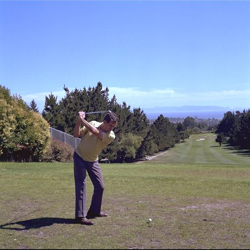 Recruiting Brochure: Shot of Bay Area Sports Activities 1979-1995